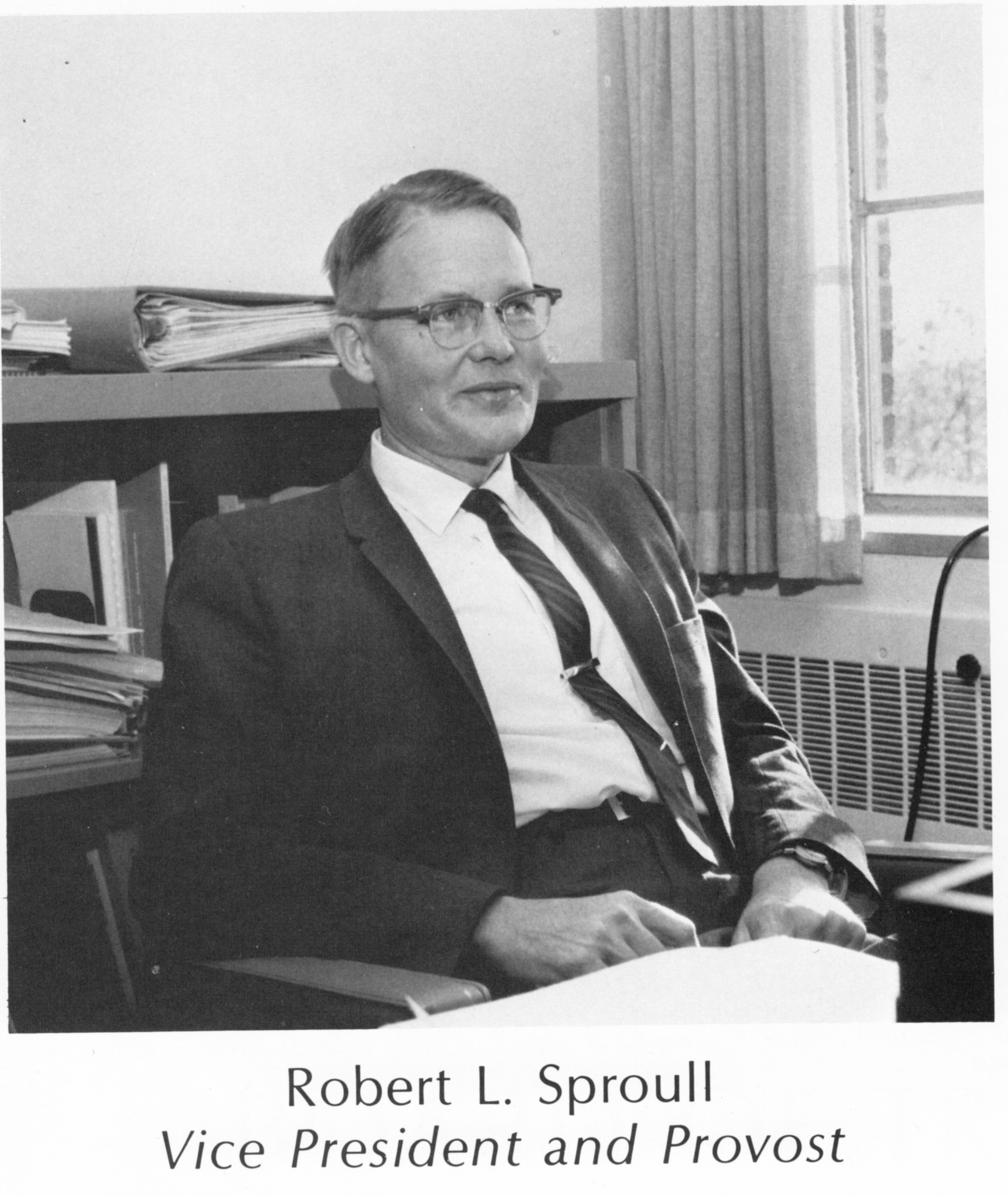 Portrait of Robert Sproull, President of the University of Rochester, from the 1970 edition of the Interpres (the university's yearbook).